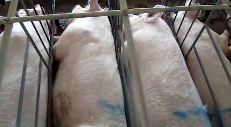 Smithfield Foods gestation crates, Smithfield Foods/Murphy Brown pig breeding facility, Waverly, Virginia, United States [1]